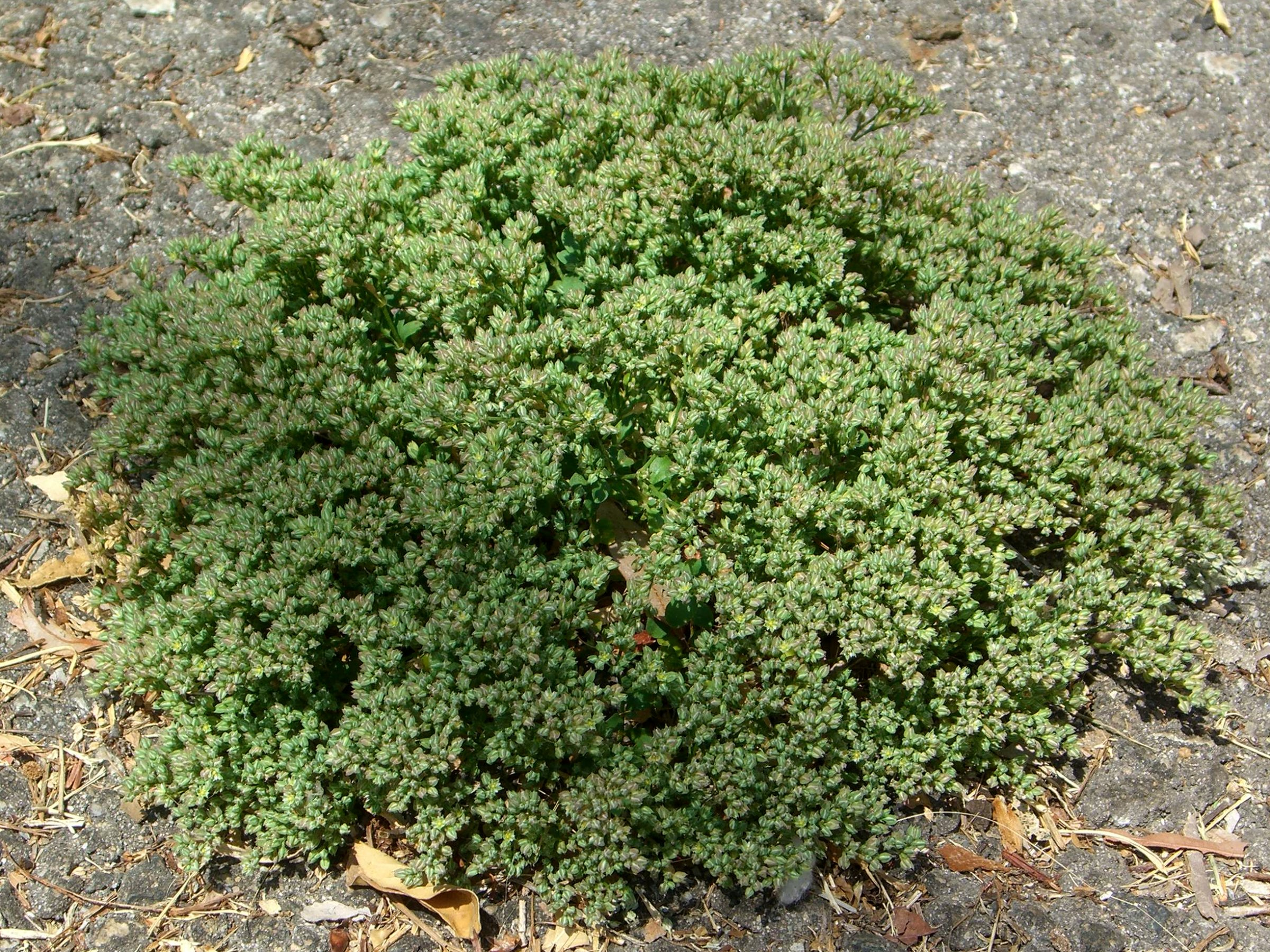 Scientific Name: Polycarpon tetraphyllum (L.) L. Common Name: Four Leaf Allseed Certainty: positive (notes) Location: California; Los Angeles; Urban Pasadena Date: 20070624